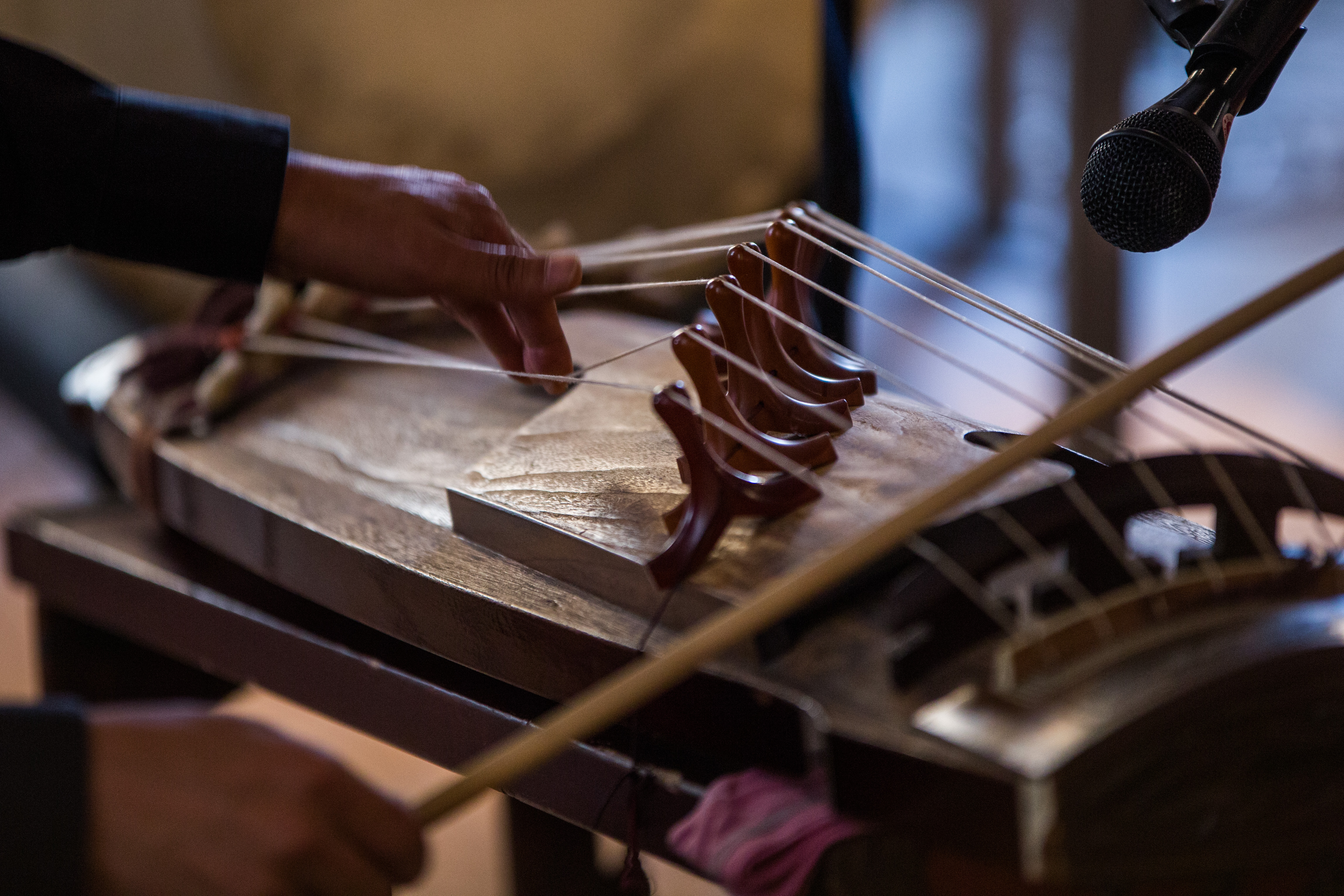 Festivalsommer This photo was created with the support of donations to Wikimedia Deutschland in the context of the CPB project "Festival Summer".